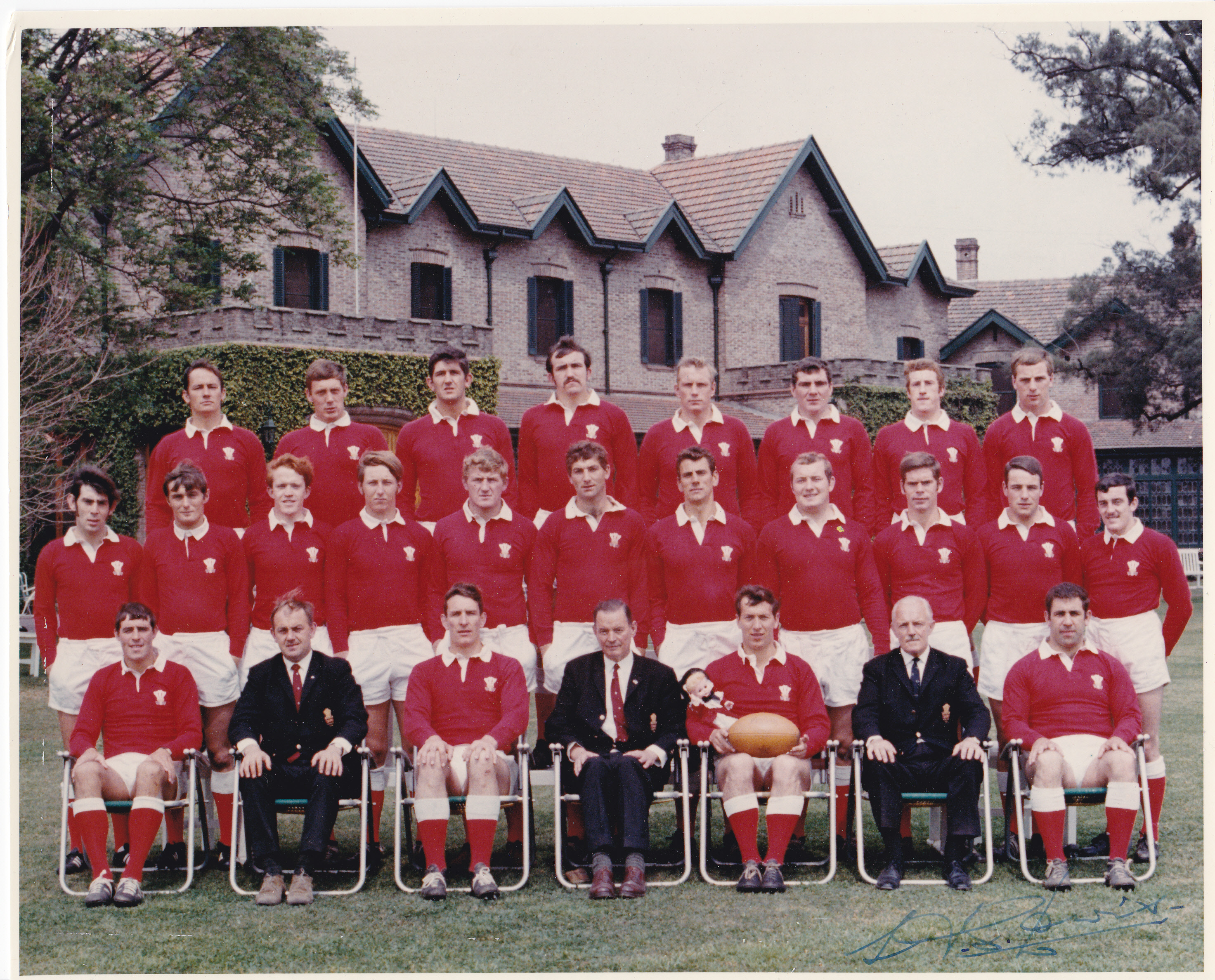 Wales v Arg Squad Photo - Middle Row 2nd from Left